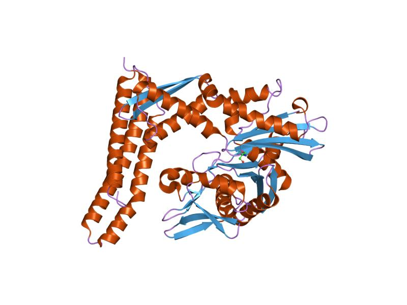 Cartoon representation of the molecular structure of protein registered with 1hx1 code.